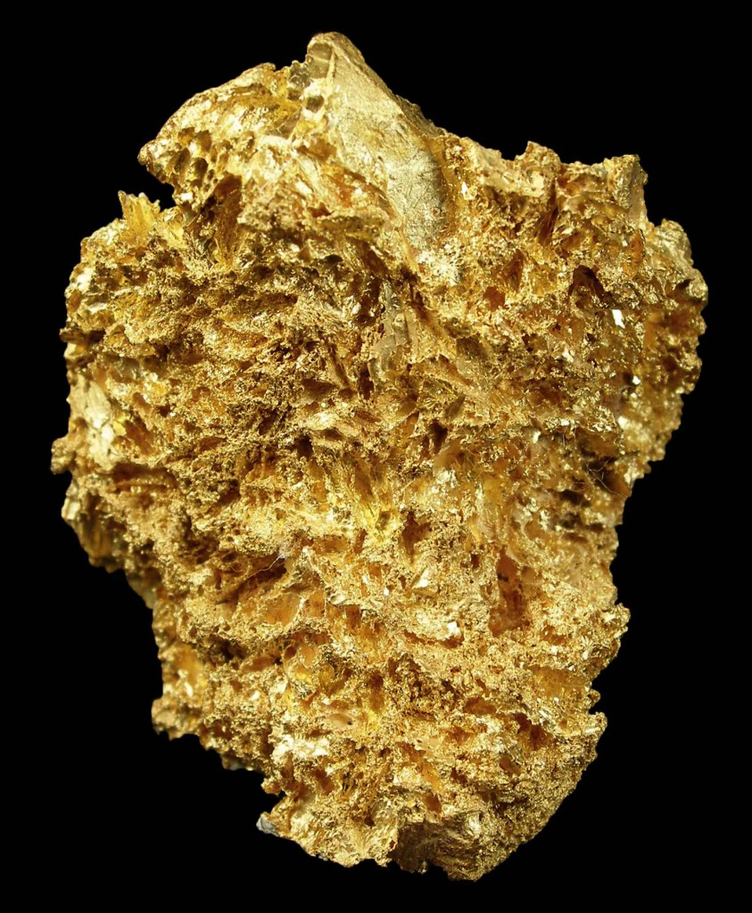 Gold Locality: Mother Lode (Mother Lode belt), Tuolumne County, California, USA (Locality at ) Size: 3.6 x 3.1 x 1.5 cm. A hackly, complex mass of slender, elongated crystals perched on limonitic matrix this is a very hefty piece for the size. It weighs 58 grams and is nearly solid gold. In the midst of the unusual nest of slender crystals smothering the matrix is one single larger crystal 1.2 cm, of unusual habit. It looks like a twisted bar, in appearance. Unusual, old material from the classic Mother Lode District.